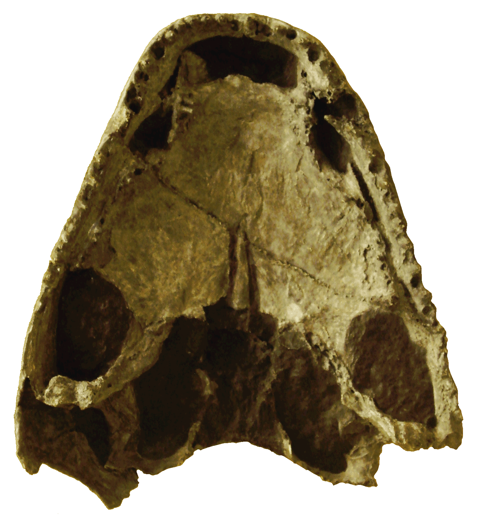 Ventral surface of Ichthyostega skull, cleanded up from File:Ichthyostega - skull.JPG by Ghedoghedo